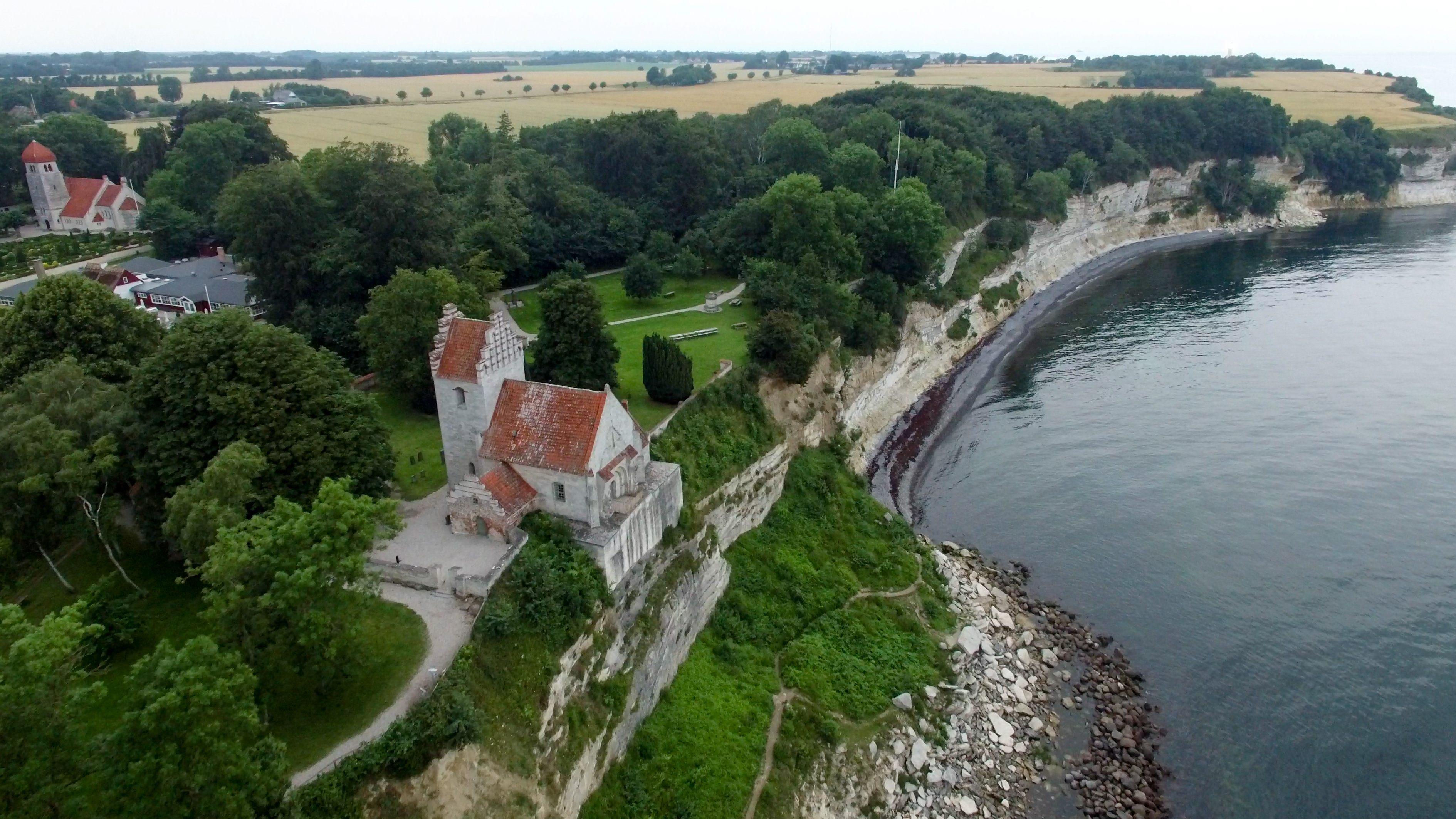 Stenvs Klint, Hojerup, Denmark, UNESCO World Heritage site. Old Højerup Church (Højerup Gamle Kirke) at the top of the cliff dates to 1200. These cliffs are one of the best places in the world to see Cretaceous-Tertiatry (K/T) boundary, which marks asteroid impact 65 million years ago. It is clearly visible as thin black layer in the white stone.